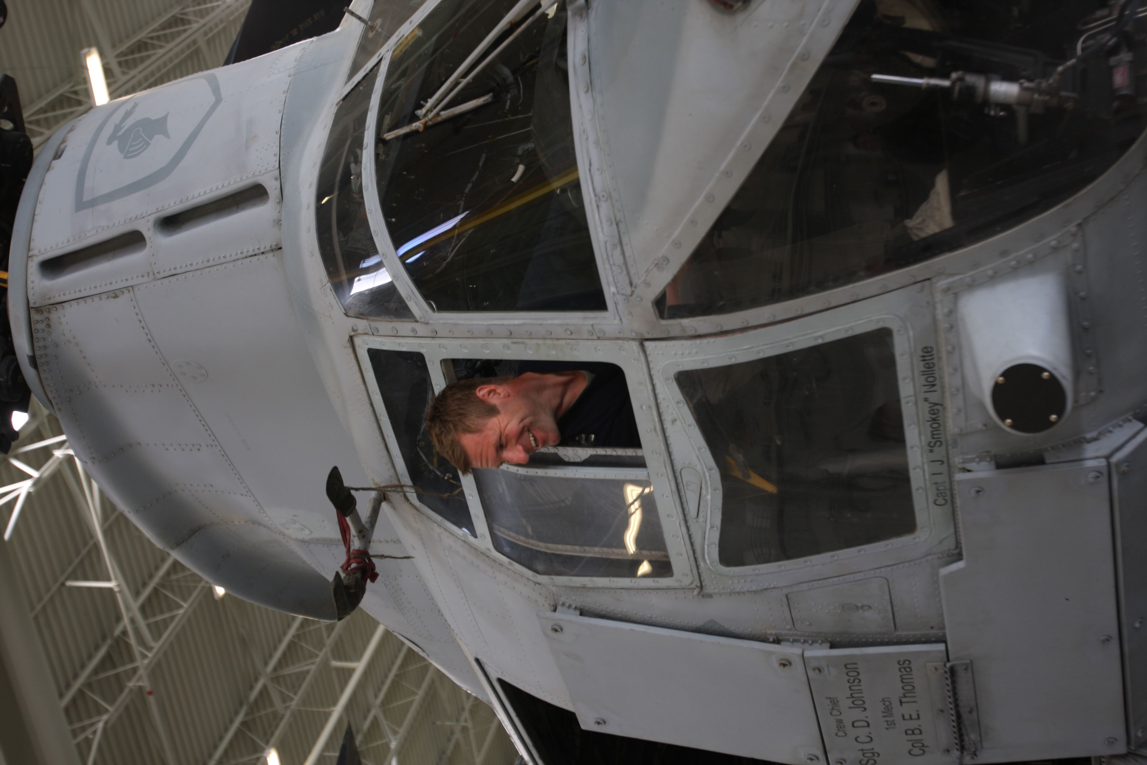 "Battle: Los Angeles" star Aaron Eckhart takes a peek out of a CH-46 "Sea Knight" at Marine Corps Air Station Miramar, Calif., March 3. Eckhart toured Marine Medium Tiltrotor Squadron 166 where he signed autographs and posed for pictures with squadron members.